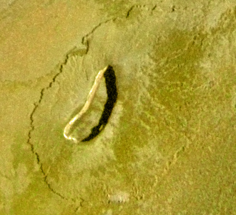 The volcano Thomagata Patera on Jupiter's moon Io from October 2001. Colorized using data from July 1999.